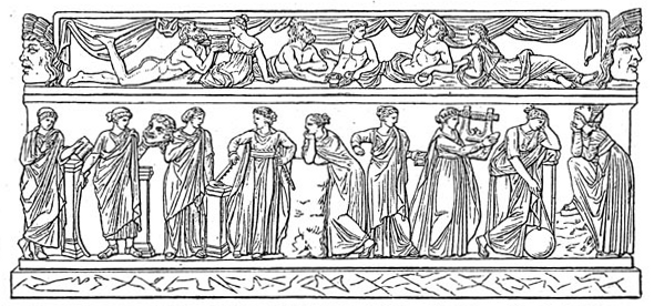 The nine canonical Muses. From left to right: Clio, Thalia, Erato, Euterpe, Polyhymnia, Calliope, Terpsichore, Urania, and Melpomene. Drawing of a sarcophagus at the Louvre Museum.